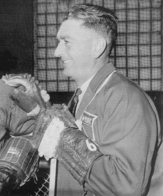 1960 New York Rangers New Goaltender Jack McCartan & Coach Alf Pike Press Photo